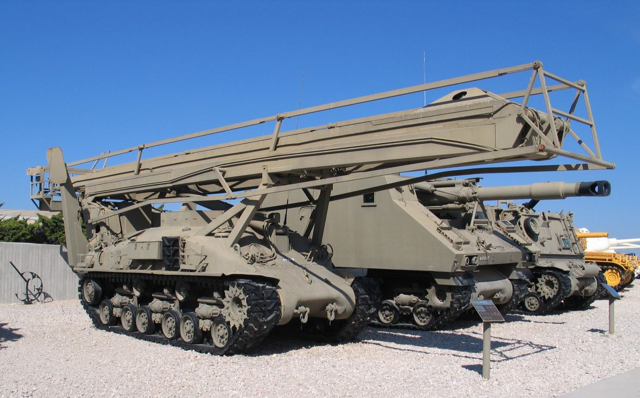 Description: Eyal observation post vehicle on M4 Sherman tank chassis in Yad la-Shiryon Museum, Israel. 2005. Source: Photo by me, User:Bukvoed.